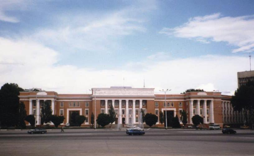 Tajik Parliament House, Dushanbe, Tajikistan